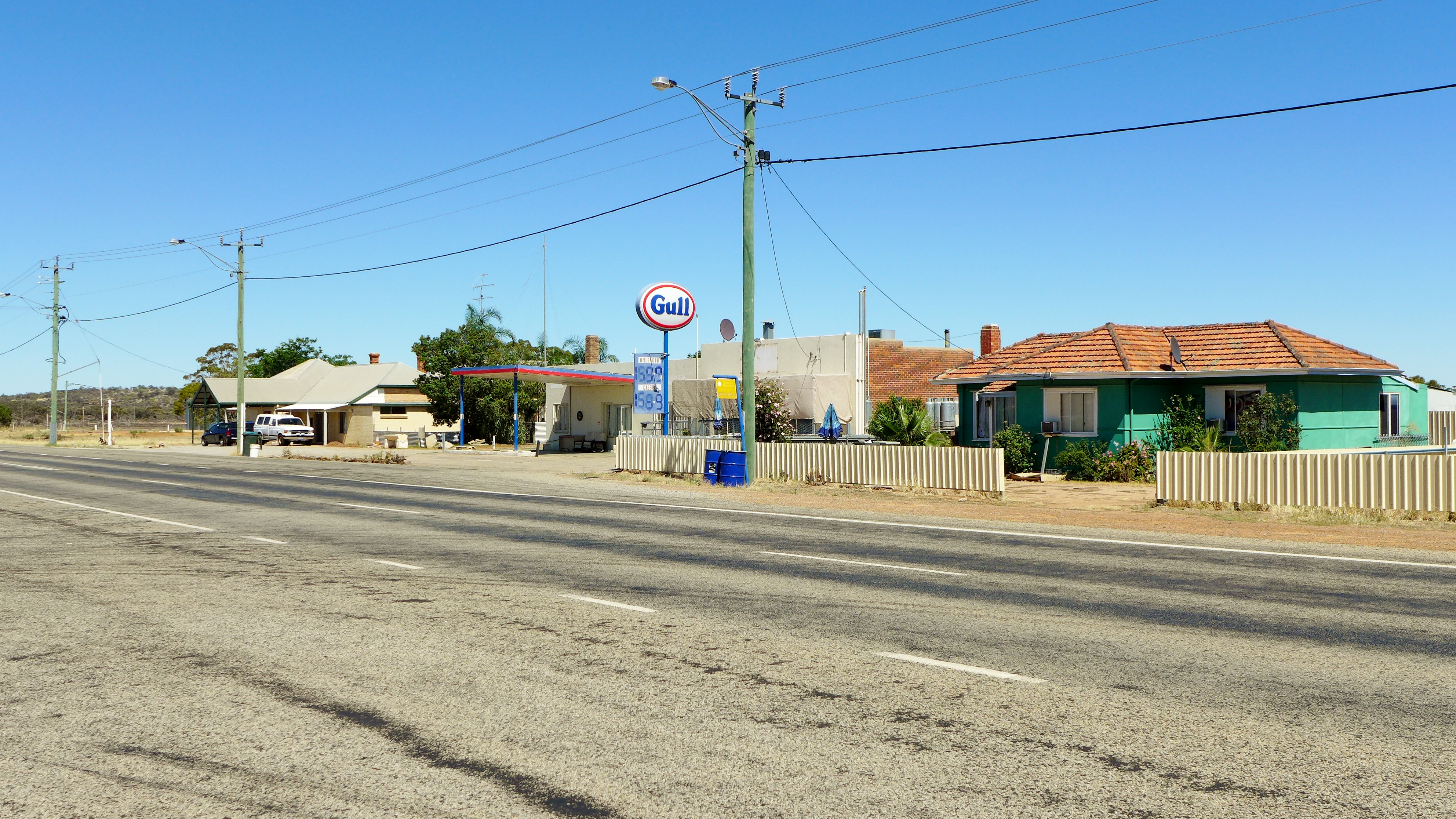 View of Great Eastern Highway, Hines Hill, Western Australia.